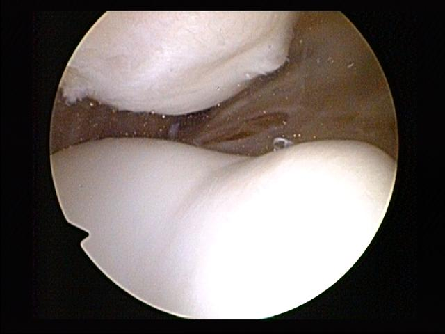 Articulation of the patella and the femoral cartilage viewed from aside during knee arthroscopy (lateral view, lateral epicondylus to the right of the image).